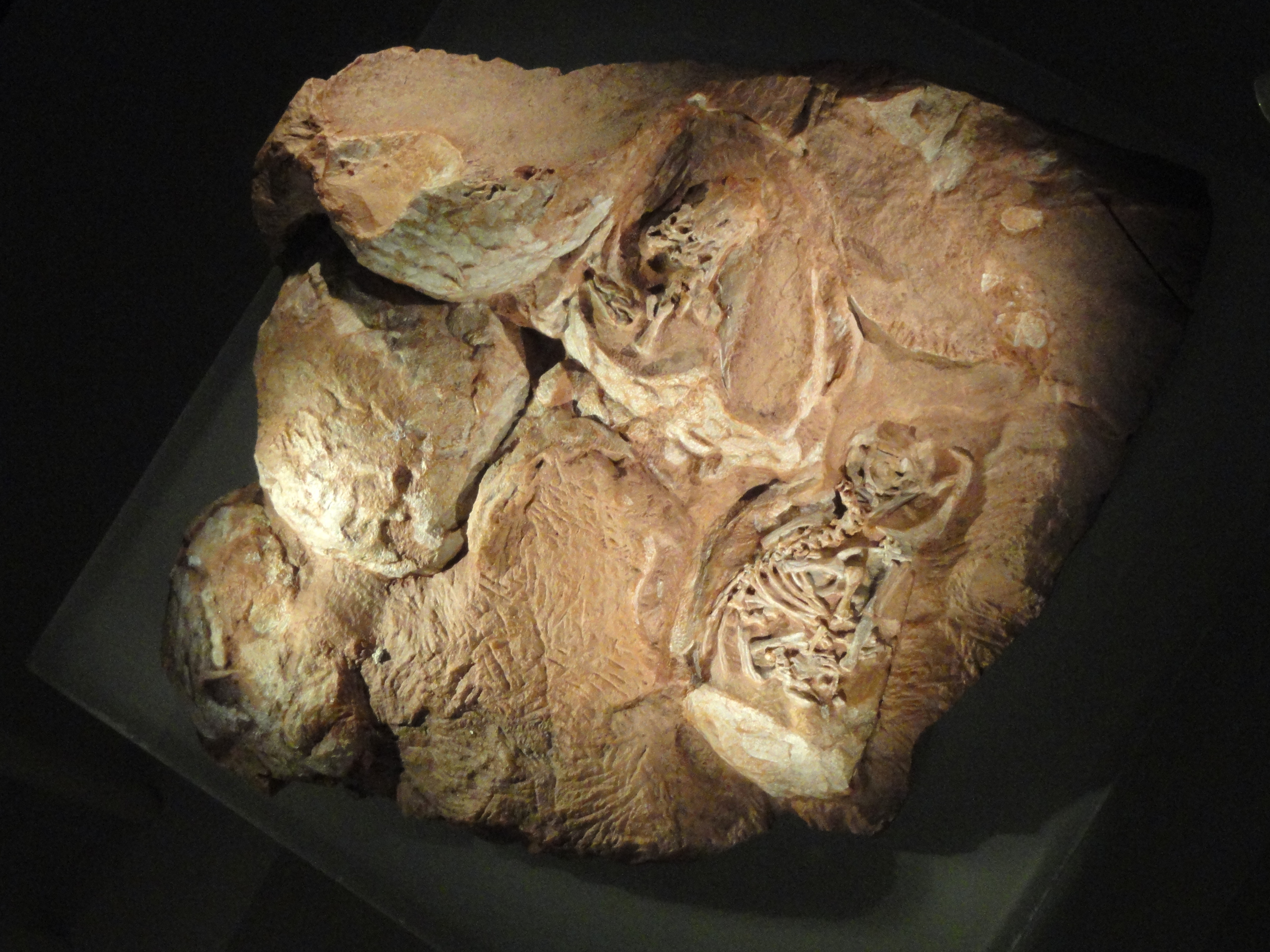 Exhibit in the Royal Ontario Museum, Toronto, Ontario, Canada. This exhibit is old enough so that it is in the public domain, and photography was permitted in the museum. I took this photograph and release it into the public domain.